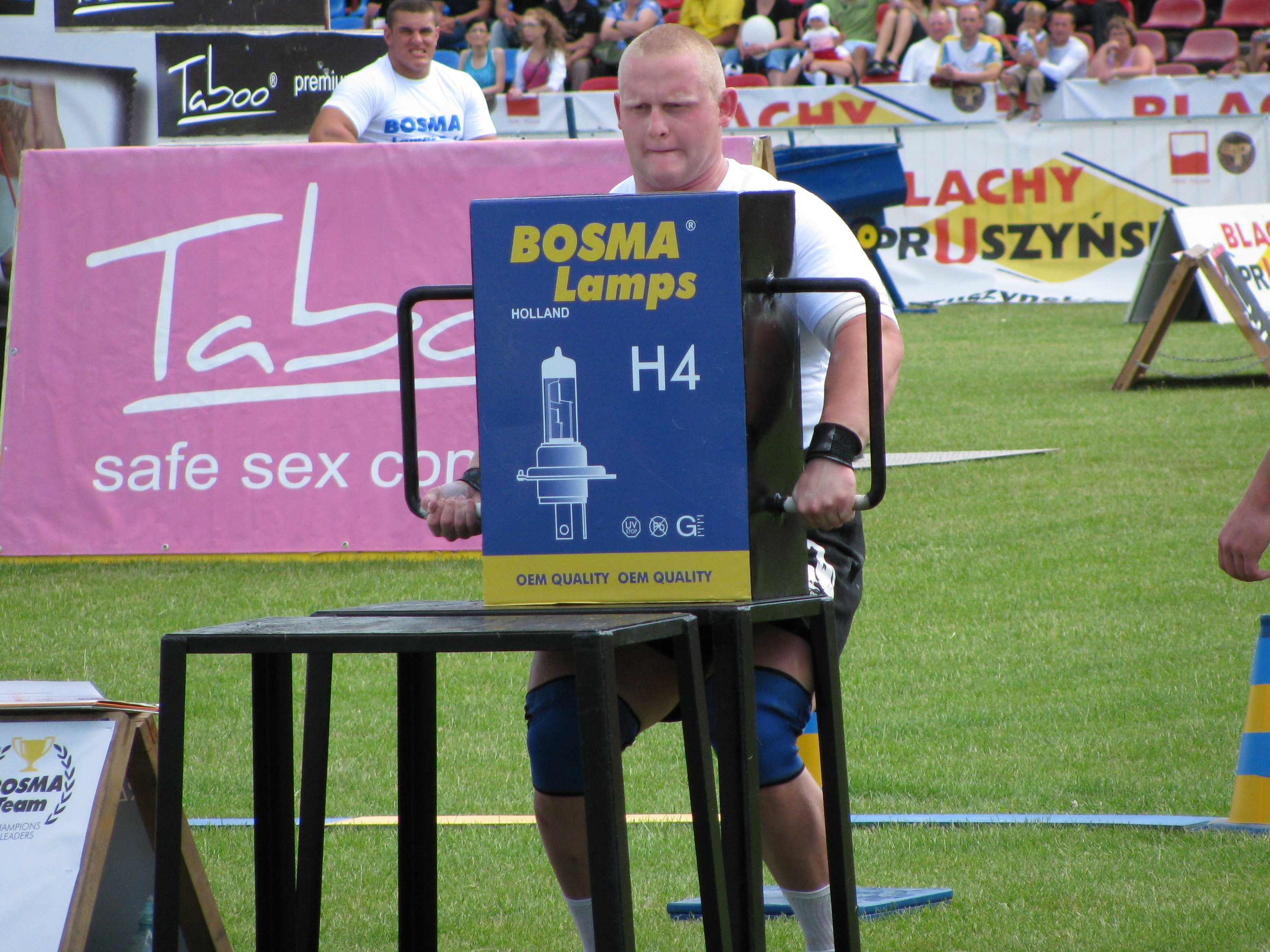 Rafal Kobylarz - a strength athlete from Poland